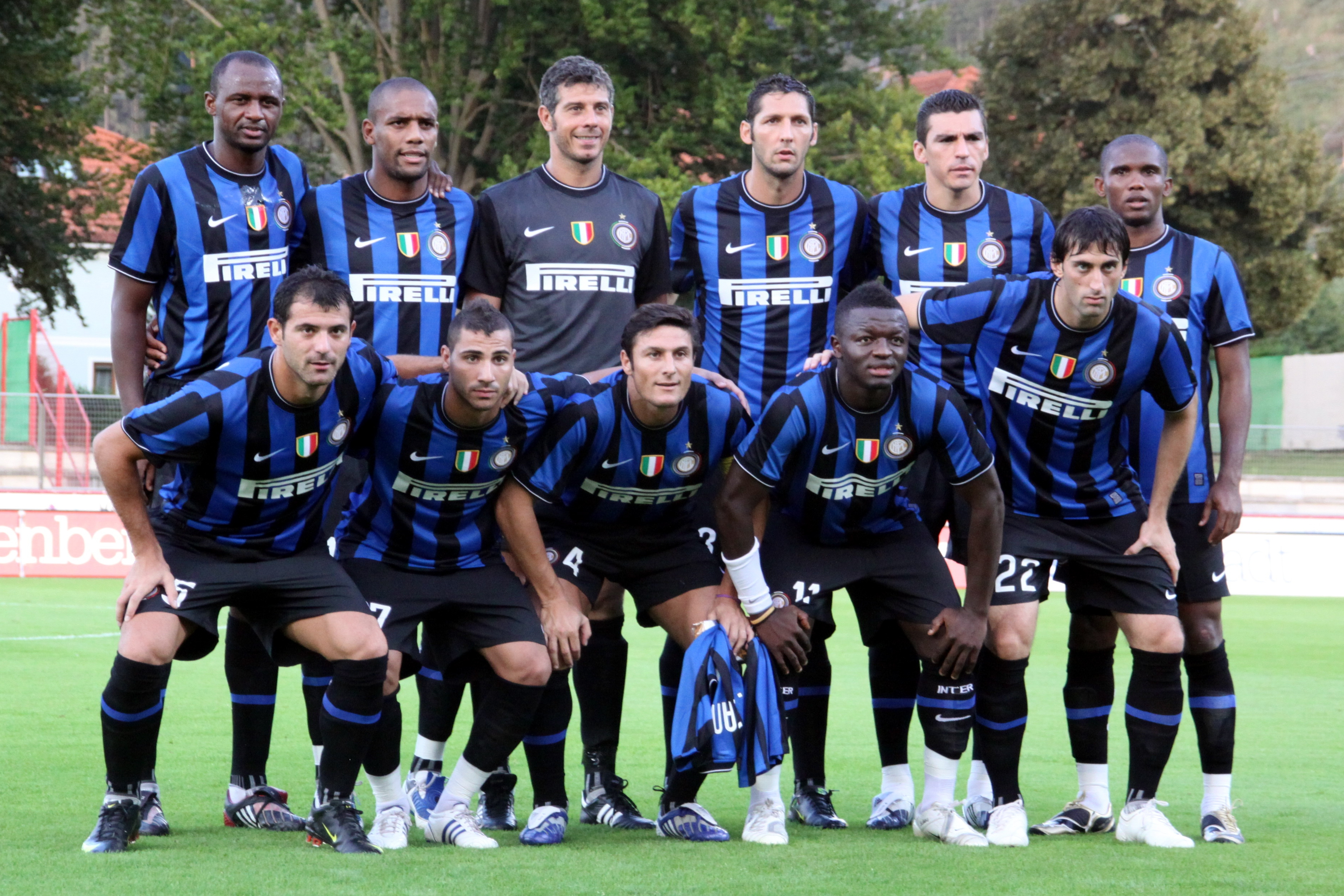 F.C. Internazionale Milano at 2009-08-16 in Kapfenberg (Austria) vs. the Bahrain national football team. Team:Viera, Maicon, Toldo, Materazzi, Lúcio, Eto, Stankovic, Quaresma, Zanetti, Muntari, Milito